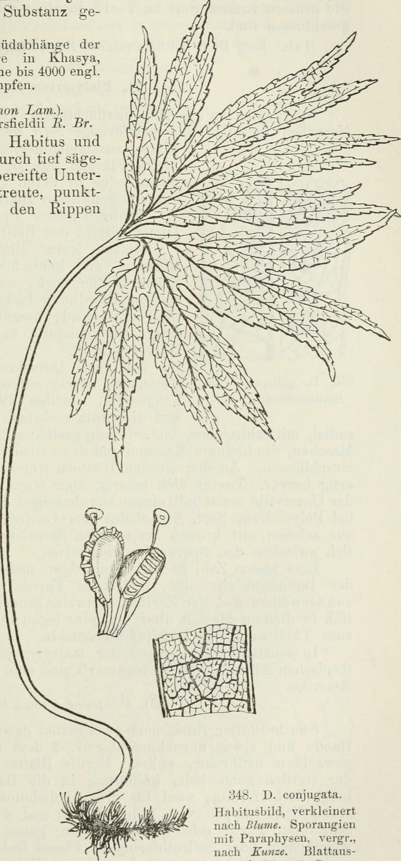 Title: Die Farnkräuter der Erde : beschreibende Darstellung der geschlechter und wichtigeren Arten der Farnpflanzen mit besonderer Berücksichtigung der Exotischen Year: 1897 (1890s) Authors: Christ, H. (Hermann), 1833-1933 Subjects: Ferns Publisher: Jena : G. Fischer Text Appearing Before Image: Dipteris Reinw. 123 doch vorwiegend in Wcahrnehmbaren Quer- reihen, mit einer harzigen Substanz ge- mengt. Hab. Eine Zierde der Südabhänge der östlichen nordindischeu Gebirge in Khasya, Cochar und Jaintea von der Ebene bis 4000 engl. Fuss. Bodenständig in Waldsümpfen. 348. D. conjugata (Kaulf. non LamX Polypodium Dipteris Bl. P. Horsfieldii E. Br. Von voriger, der sie in Habitus und Grösse gleicht, verschieden durch tief säge- zähnigen Rand, stark blau bereifte Unter- seite, durchaus regellos zerstreute, punkt- artig kleine Sori, die an den R angehäuft sind und oft zusammenfliessen. Keine Harzsubstanz mit den Sori vermengt, aber Para- physen. Tracht eines grossen Petasitesblattes. Hab. Verbreitet von der Halbinsel Malakka durch die malayische Region bis For- mosa, Viti und ^ eu-Caledonien. Bodenständig wie alle Arten. 349. D. Lobbiana (Hook.) Beäd. Polypodium bifurcatum Baker. Um ein Drittel kleiner, Blatthälften 3—4fach auf verschiedenen Niveaux di- chotom getheilt, Lappen lineal, ^4 cm breit, ganz- randig, sehr spitz, hart lederig, unten Aveisslich flaumig, längs den Rippen eine Reihe deutlicher grösserer Maschen mit je einem bis zwei zusammen- fliessenden Sori. Sori also einreihig längs den Rippen. Hab. Seltenheit des M. Ophir auf Sumatra und auf Borneo, mit der Matonia, deren paläophytischen Habi- tus sie theilt. Auch in Xord- Celebes 1. Koorders. 350. D. quinquefurcata (Bah.) Steht zwischen Lob- biana und Wallichii in der Mitte. Die Lappen sind lineal, aber 2 cm breit und auf jeder Seite der Text Appearing After Image: 348. D. conjugata. Habitusbild, verkleinert nach Blume. Sporangien mit Paraphy.sen, vergr., nach Kunze. Blattaus- schnitt, nat. Gr.